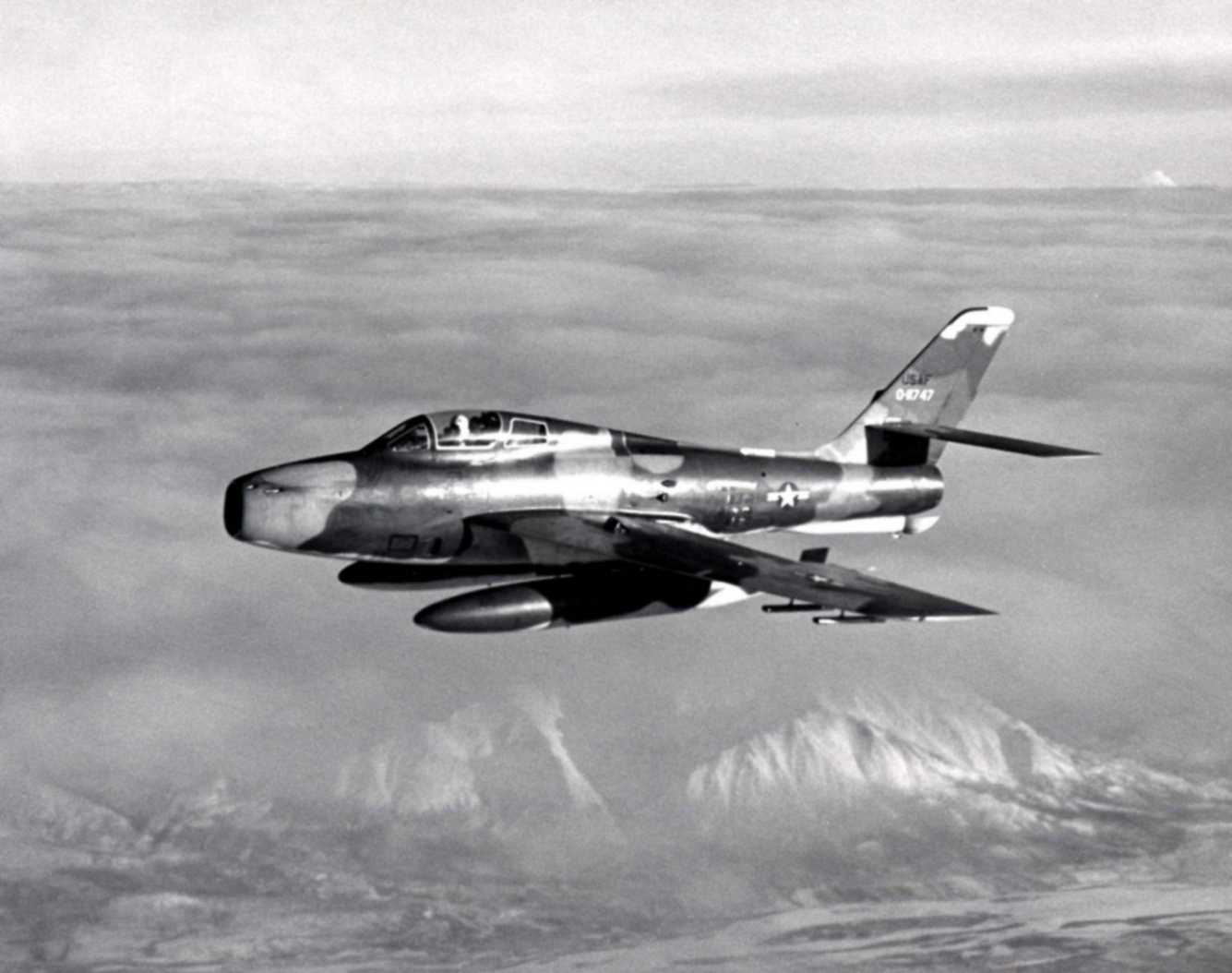 A U.S. Air Force Republic F-84F-25-RE Thunderstreak (s/n 51-1747) of the 162nd Tactical Fighter Squadron, 178th Tactical Fighter Group, Ohio Air National Guard, during Operation "Punchcard IV". Note the open drag chute door, the chute was lost during flight because it was accidentally deployed. This aircraft is displayed at Montpelier, Indiana (USA), since 1970.